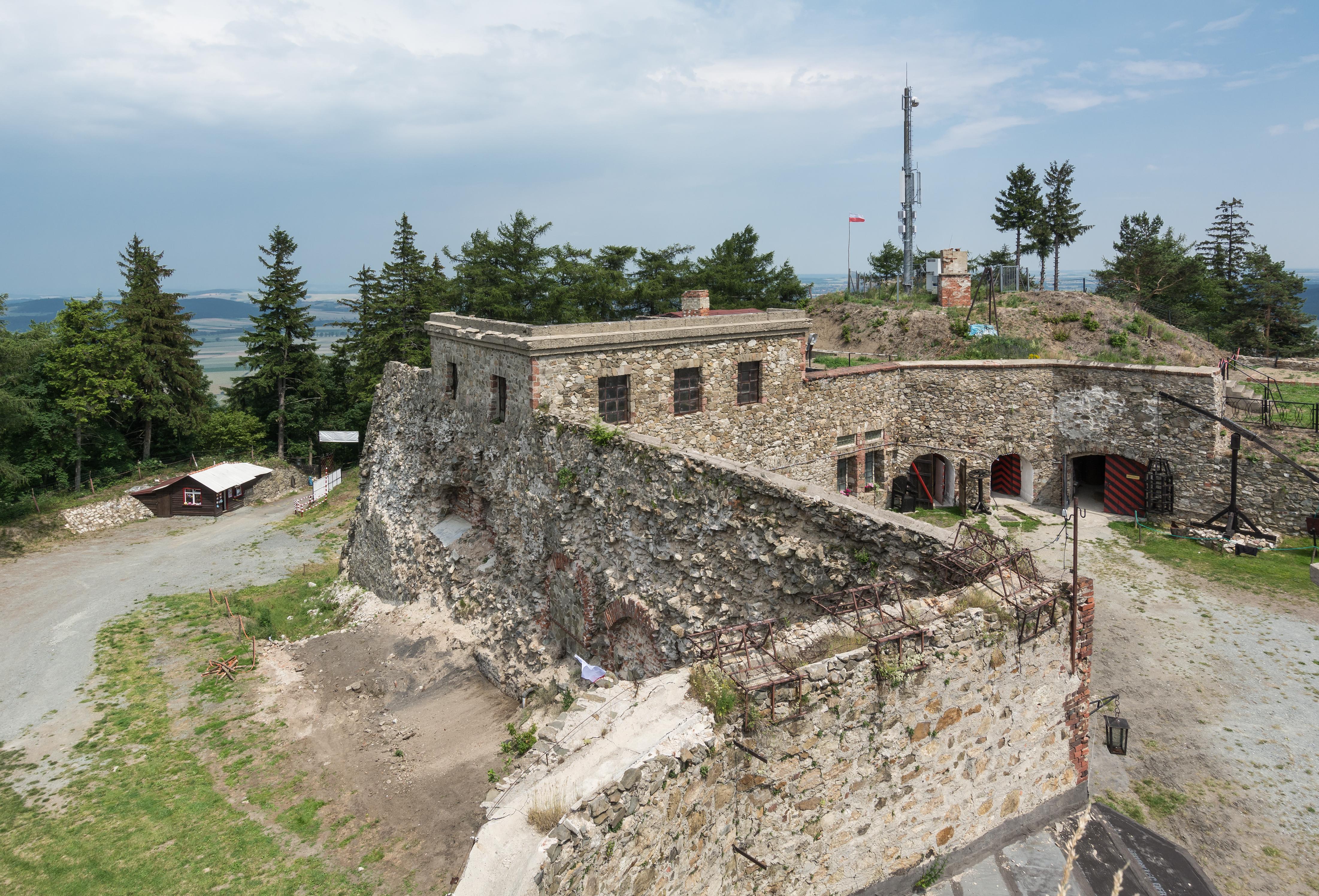 Srebrna Góra Fortress, Ostróg fort